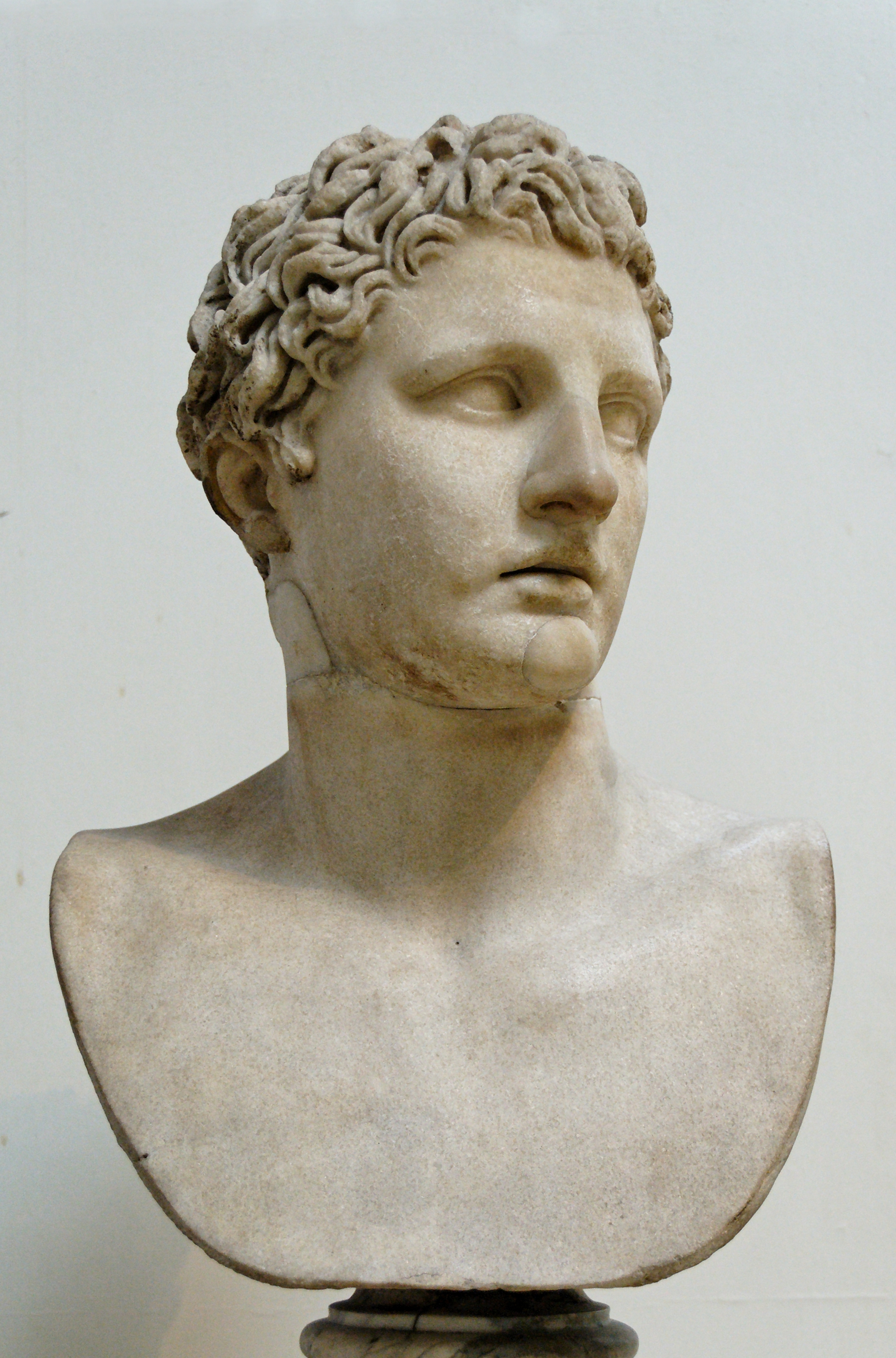 Head of Meleager. Parian marble, Roman copy after a Greek original of ca. 340-330 BC. The bust is modern.